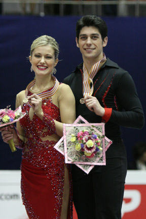 Kimberly Navarro & Brent Bommentre during the ice dancing medals ceremony at the 2008 Four Continents Figure Skating Championships. They won the bronze medal at this competition.